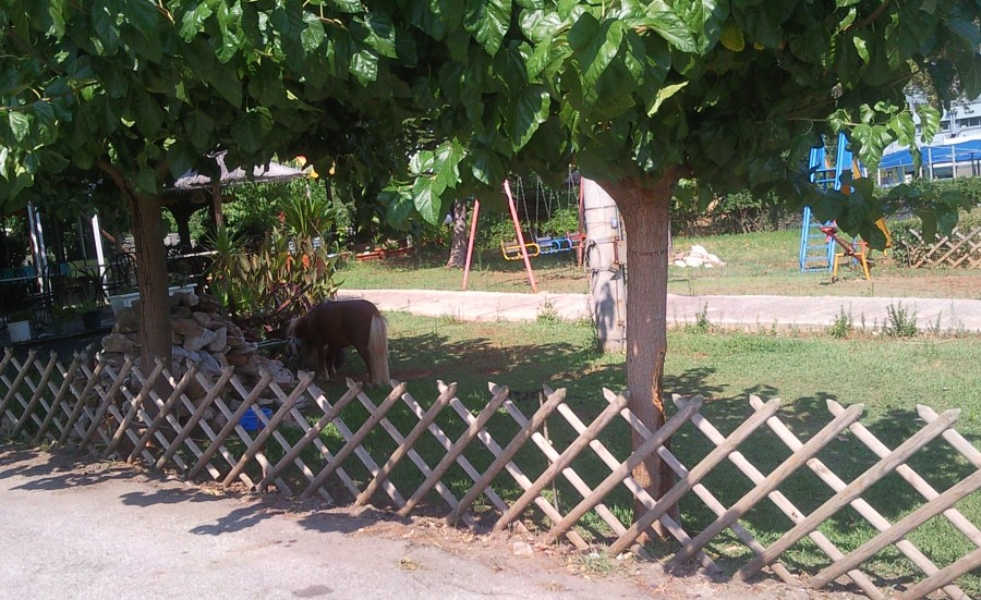 pony-kryoneri